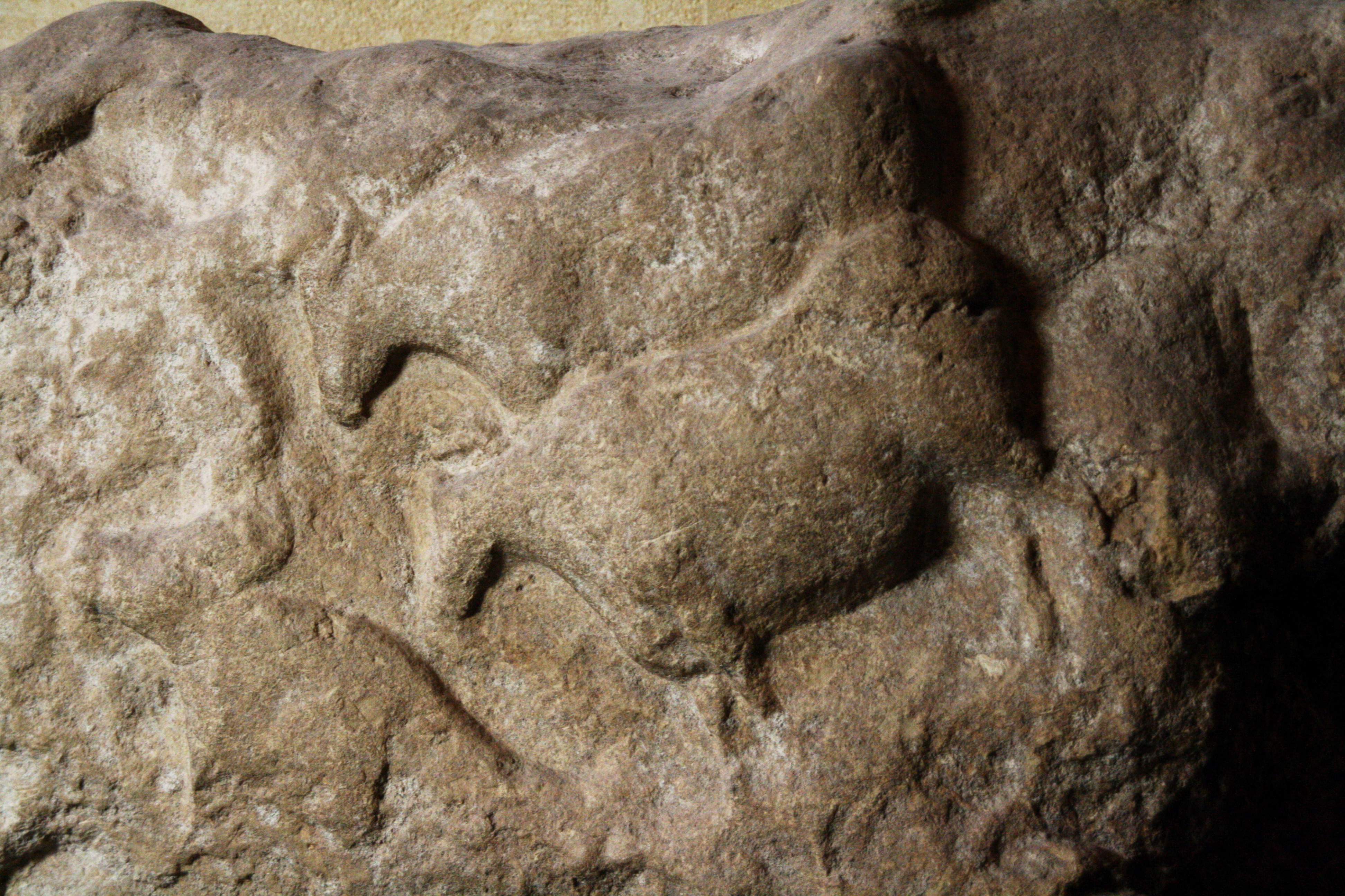 Aurochs found on the Fourneau-du-Diable (Devil's Furnace) rock in Bourdeilles, Dordogne, France. Solutrean period, 18,000 BP. They can be viewed in the National Prehistory Museum in Les Eyzies-de-Tayac.